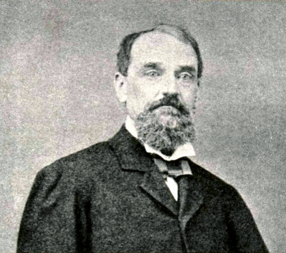 Print of James Duncan Phyfe, son of Duncan Phyfe. Published in 1939.